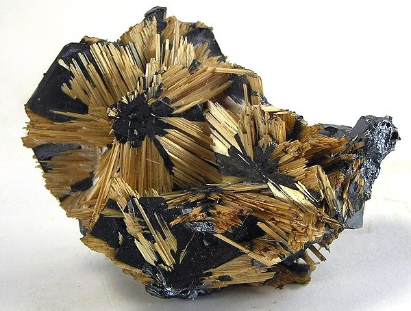 Rutile, Hematite Locality: Novo Horizonte, Bahia, Northeast Region, Brazil (Locality at ) Size: 5.3 x 4.6 x 2.7 cm. You are now probably familiar with this combination from Brazil of golden, acicular crystals of rutile with platy-metallic hematite. This specimen looks great from both sides. On one side you have this pretty 30-degree burst on two different levels, and on the other, a large, gleaming plate of hematite with rutile between its spokes. A really rich and pretty one!